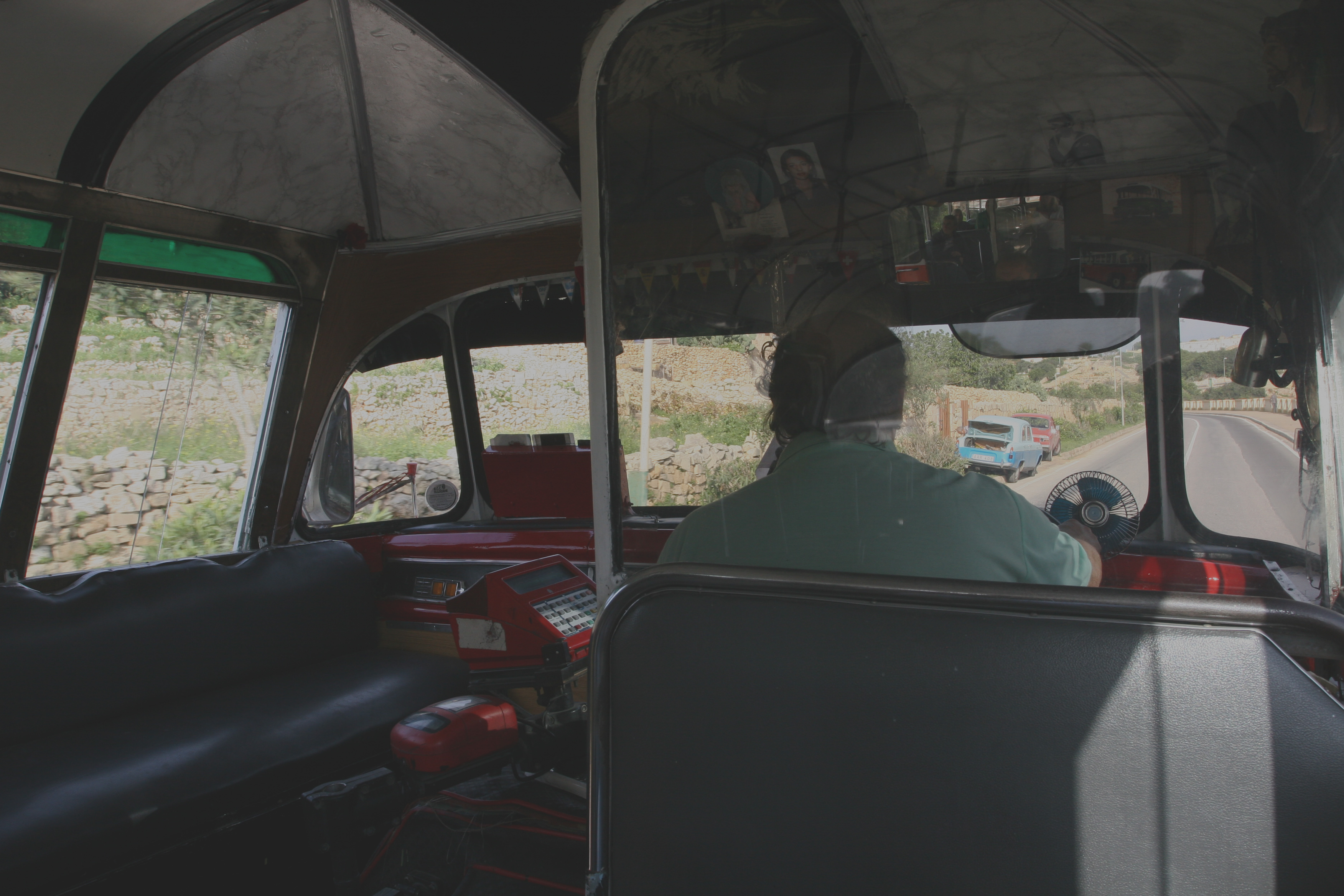 The inside of the buses usually have religious pictures, flags, rosary beads and their own hand crafted method of notifying the driver that you need to stop.